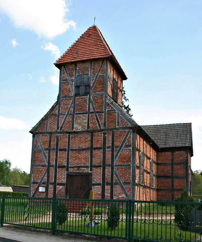 Town church of Ahrensberg (part of Wesenberg in Mecklenburg, Northern Germany). The timber framed church was built in 1767.